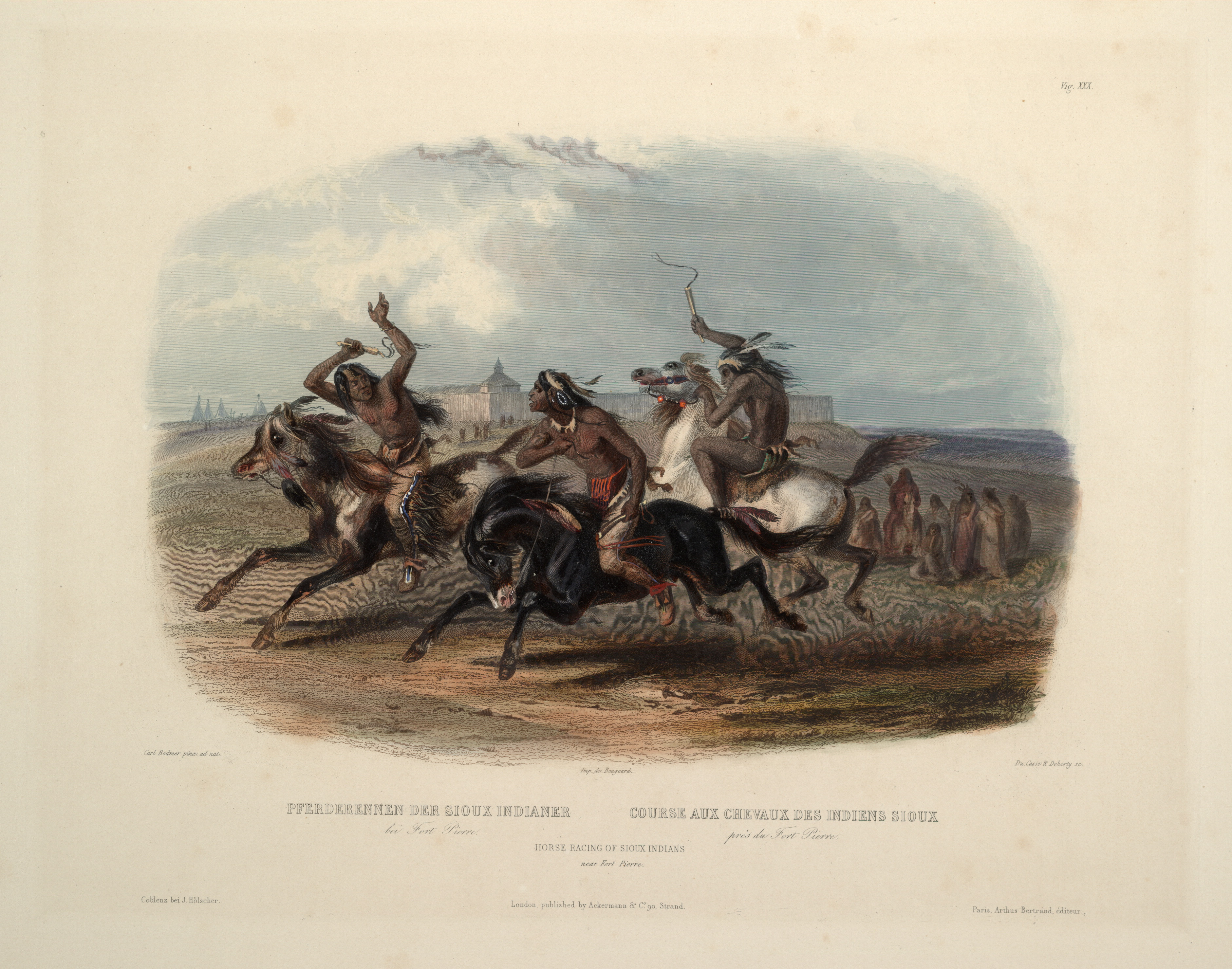 Horse racing of the Sioux indians